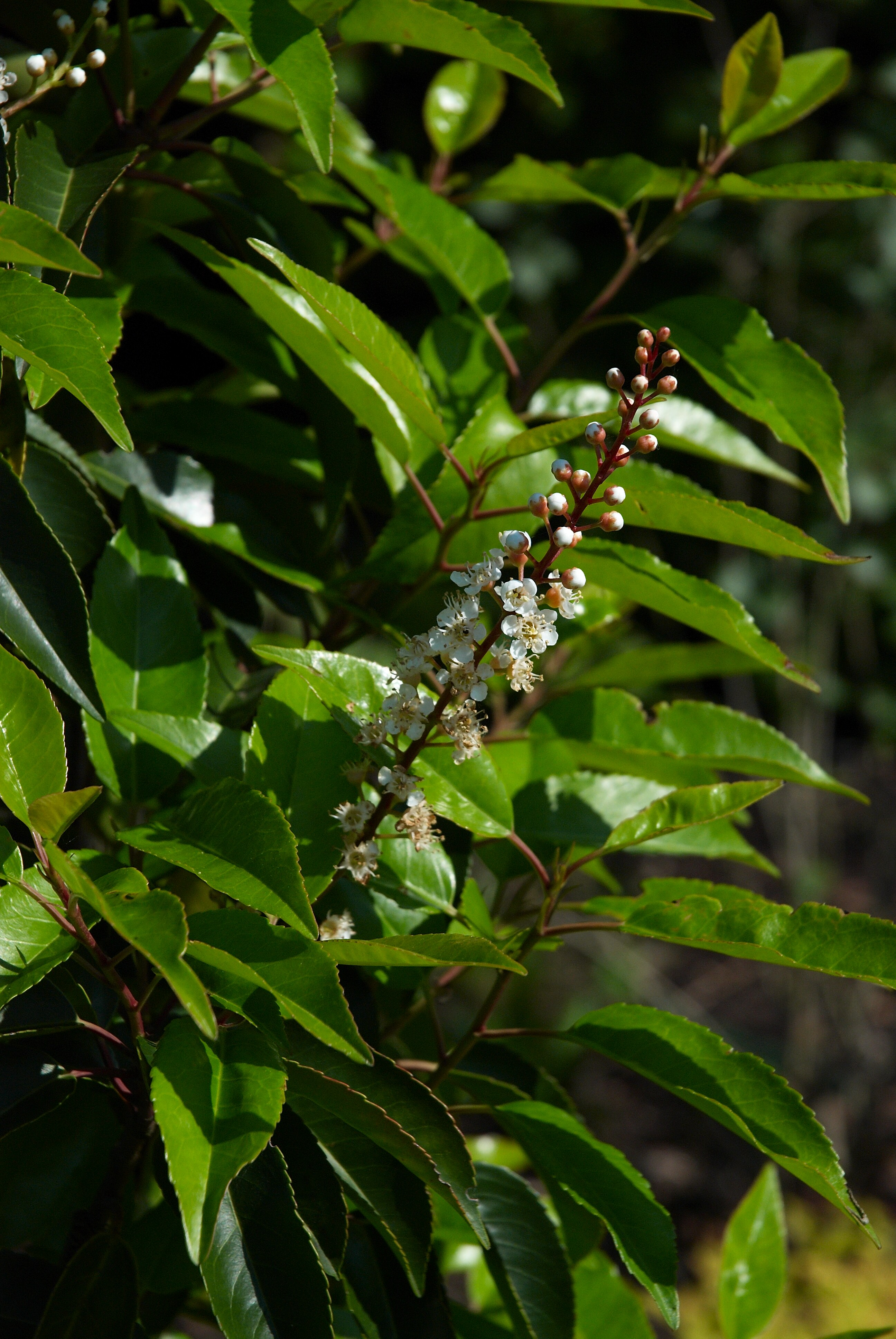 Portugal Laurel